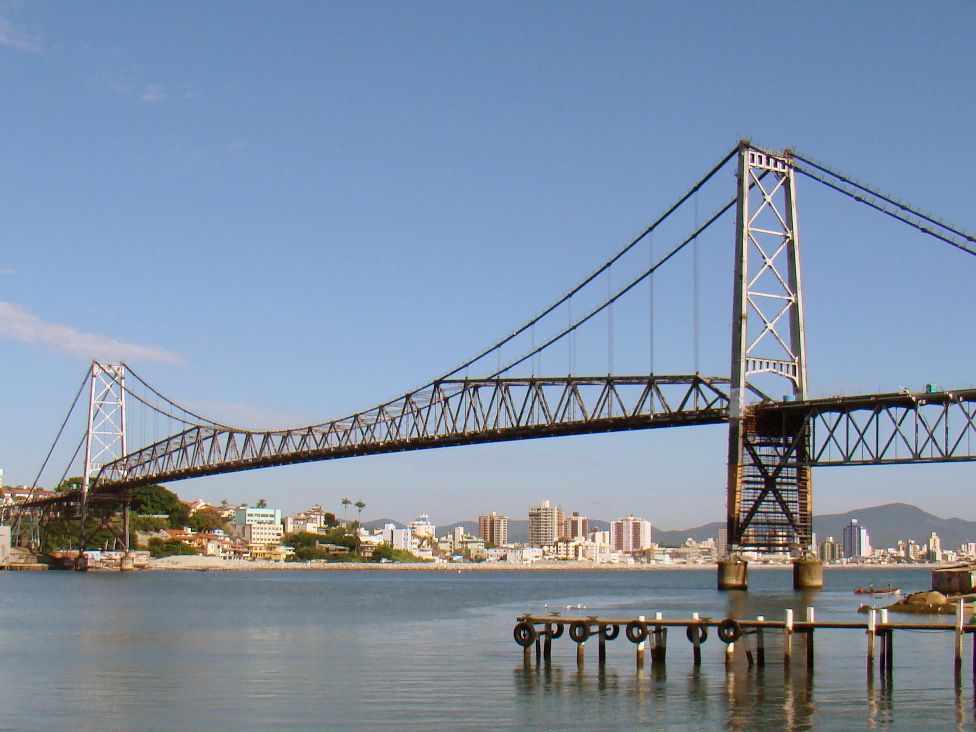 Hercílio Luz Bridge, Florianópolis, Brazil